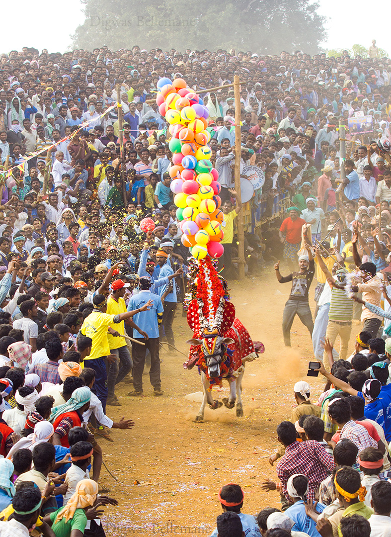 The bull "Simhadriya Simha" in action at Hori Habba, Shiralkoppa